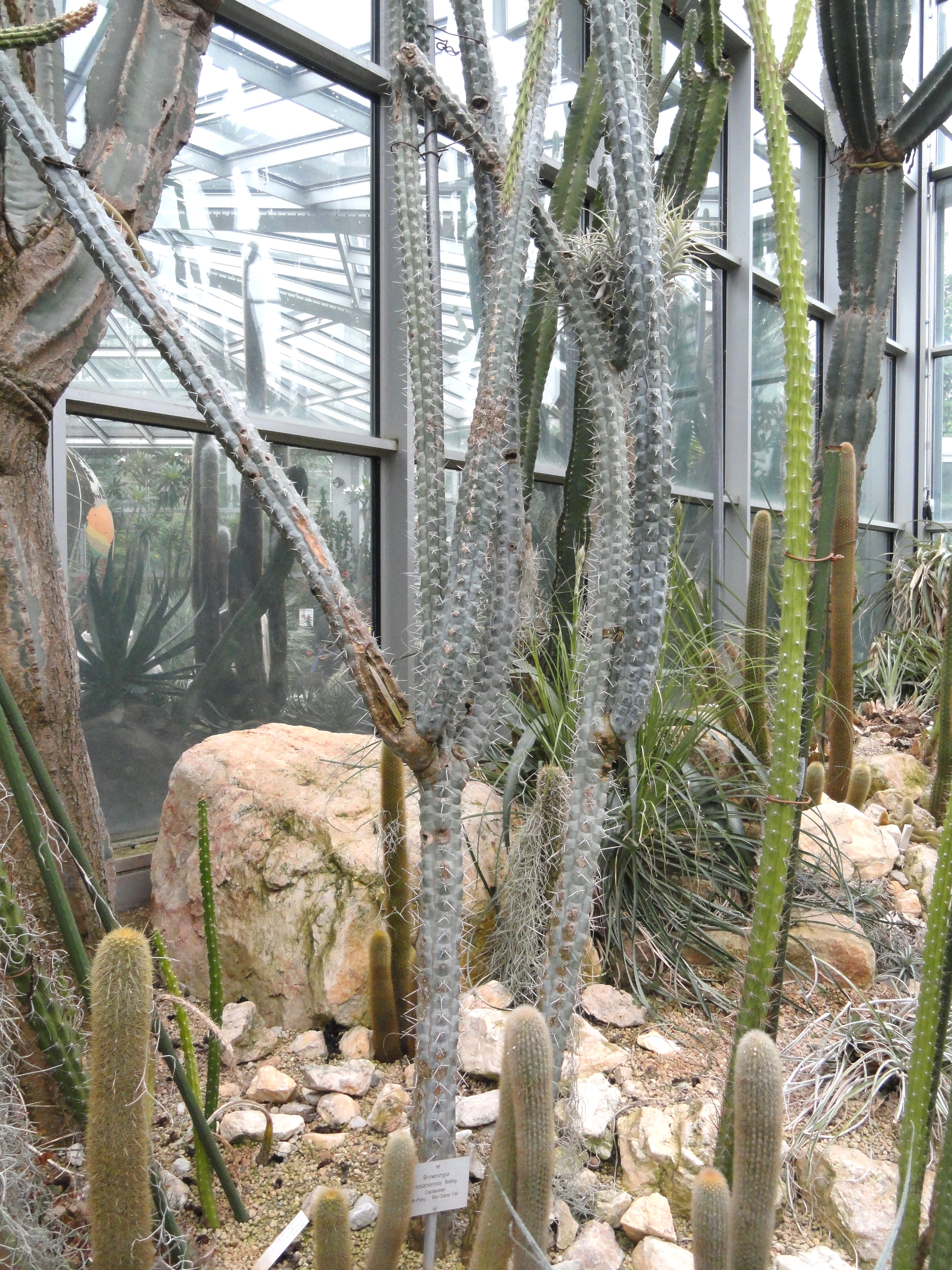 Botanical specimen in the Palmengarten, Frankfurt am Main, Germany.